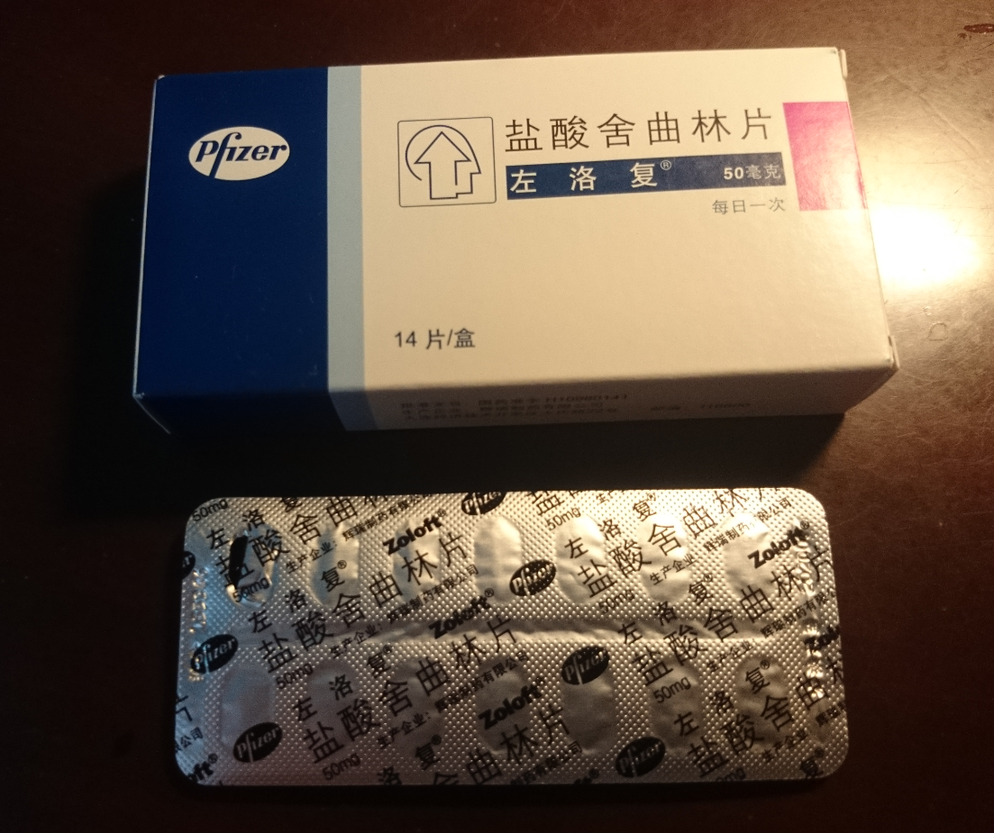 50mg Zoloft® Sertraline Hydrochloric tablets * 14， sells in mainland China.